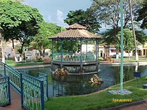 Praça Sinhá Junqueira em Igarapava-SP